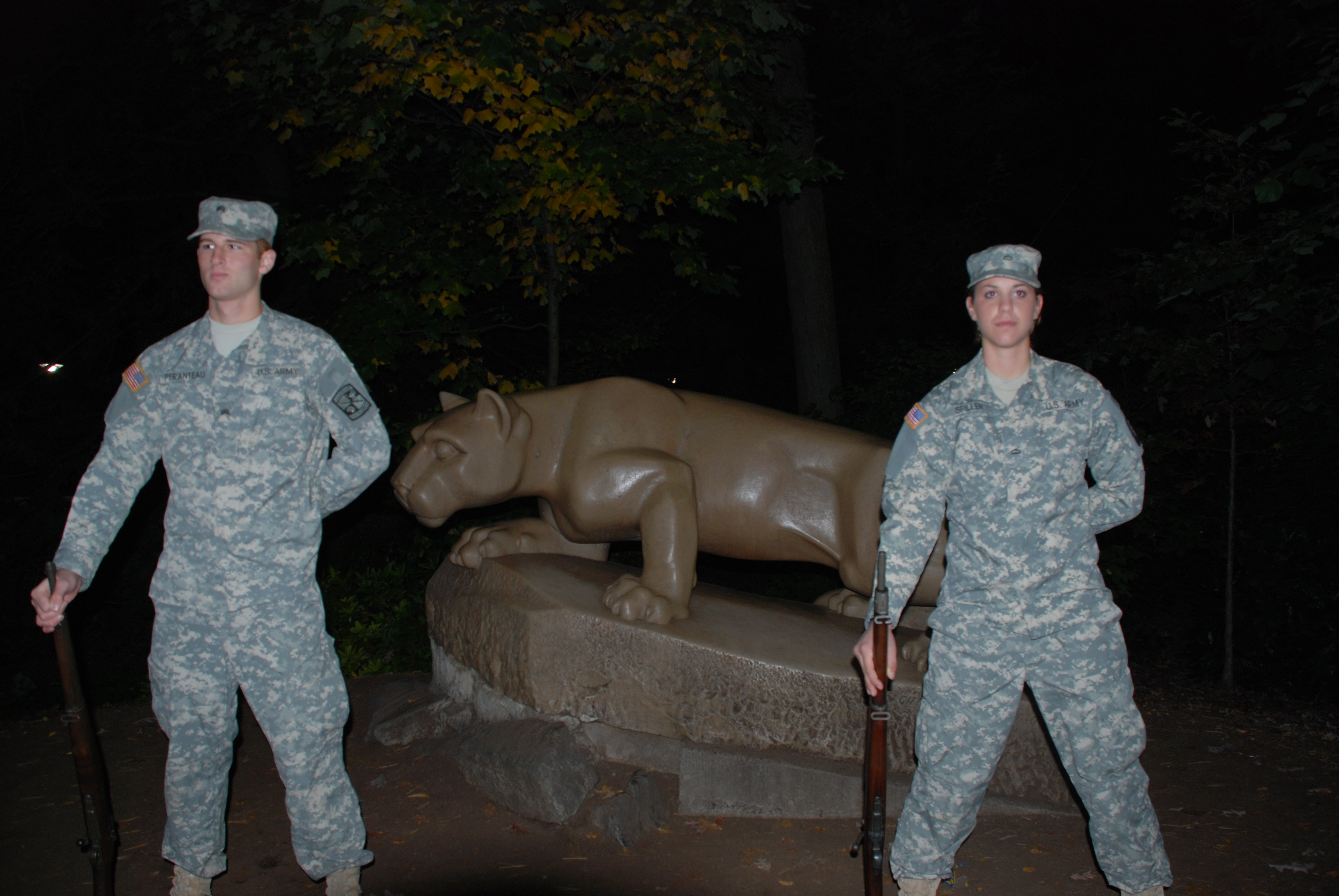 PSU AROTC Cadets Guarding the Lion Shrine